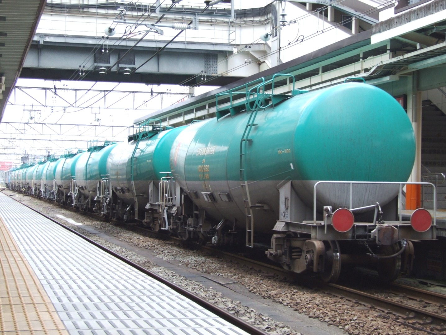 Tail of Freight Train, JR Freight, Japan